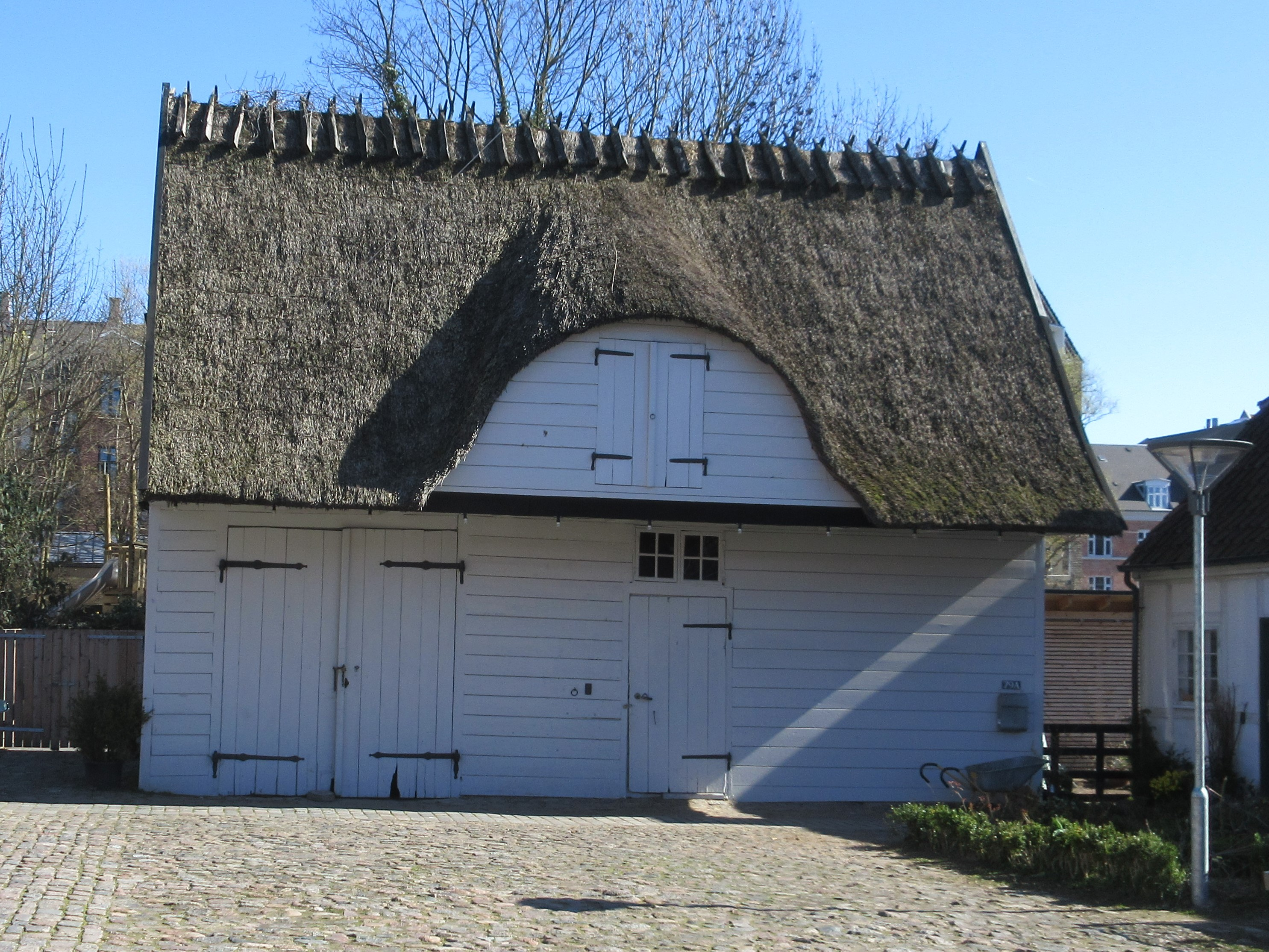 Former barn, part of Store Godthåb in Frederiksberg, Denmark